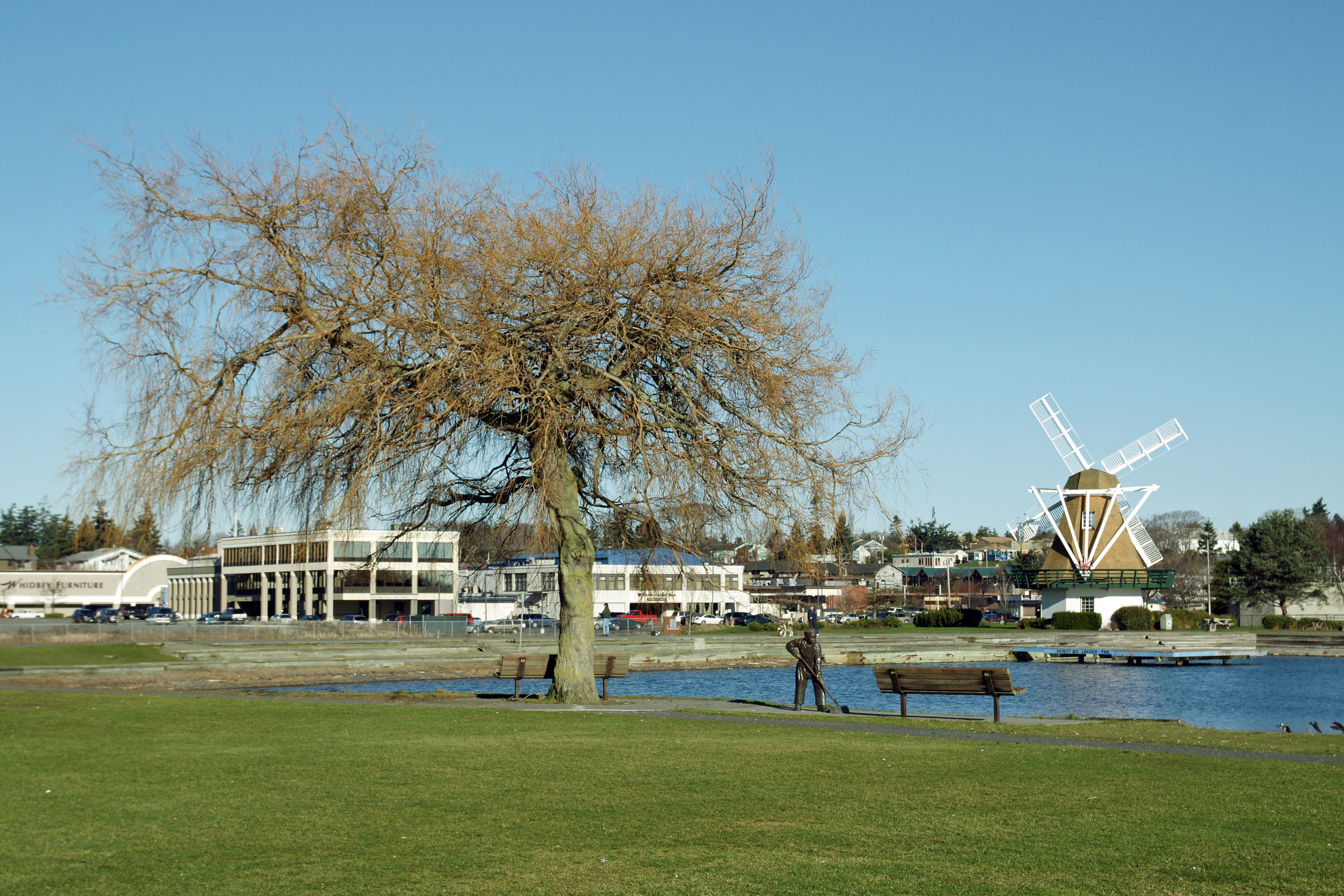 Oak Harbor.